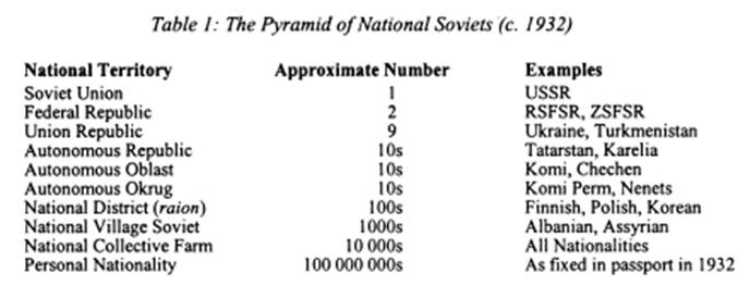 The pyramid structure of the National Soviet System, first established in the 1930's.